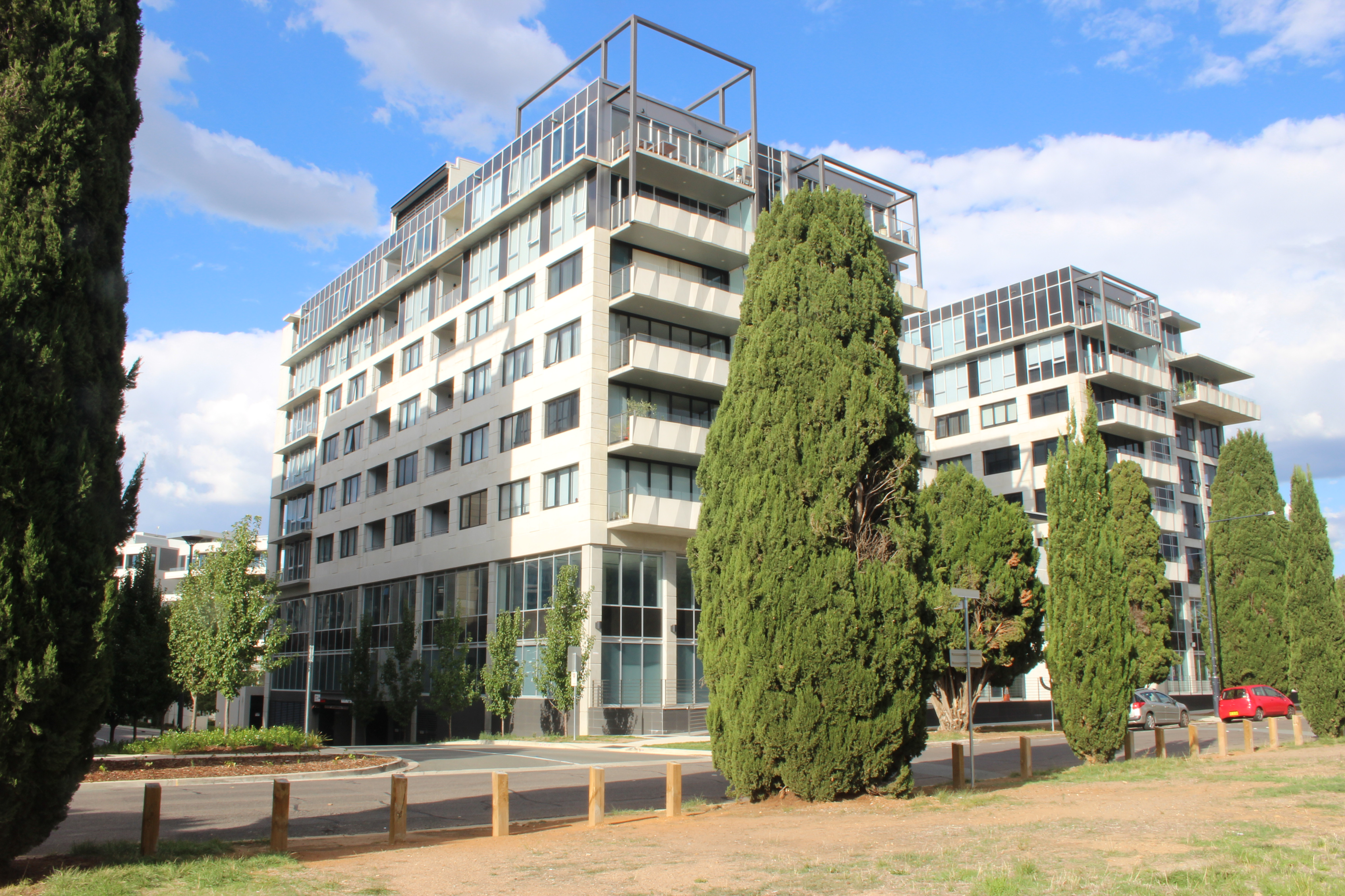 Realm Apartments, Barton